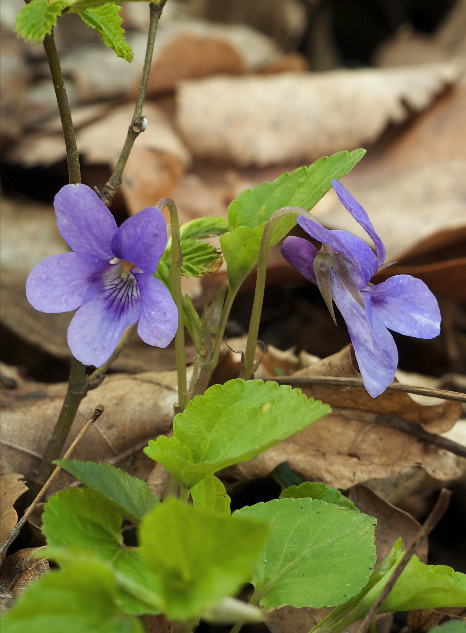 Viola reichenbachiana), Chemnitz, Germany